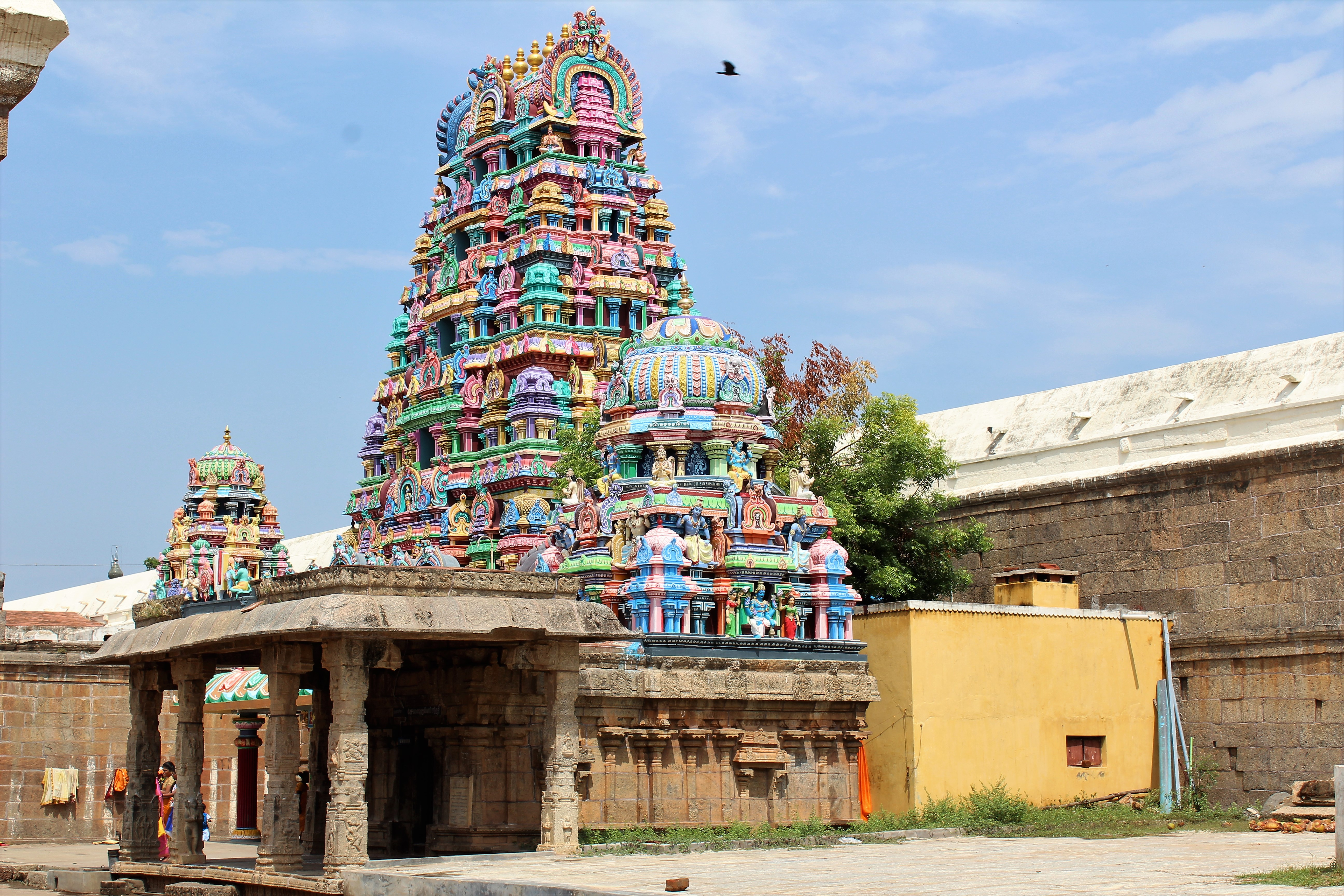 Srimushnam Bhuvarahaswamy temple